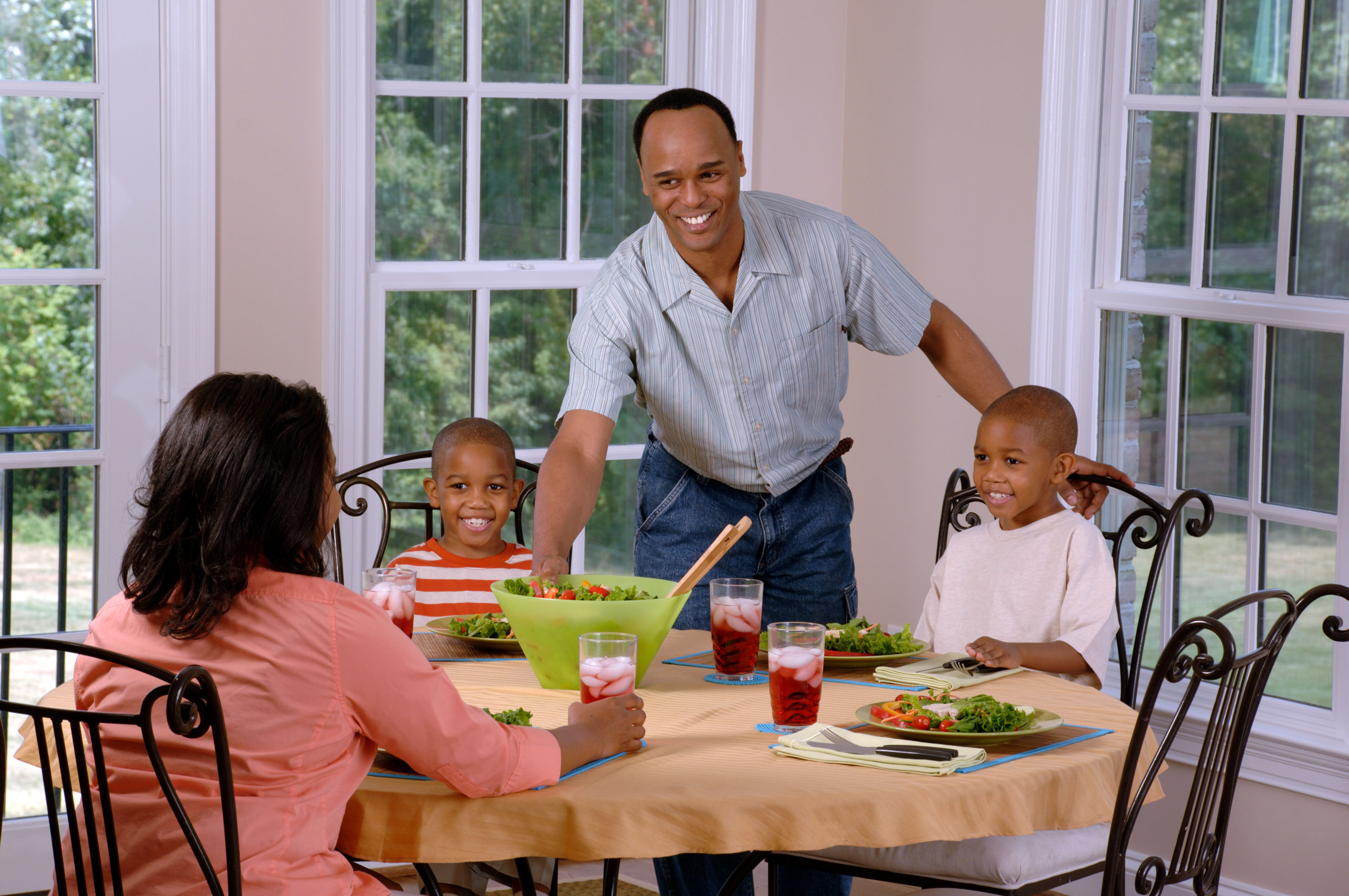 Title Family Eating Lunch Description An African-American family sits for lunch. The adult male serves a salad as two children (male) and an adult female looks on. Topics/Categories Food and Drink People -- Adult People -- Child People -- Family/Friends Type Color, Photo Source National Cancer Institute (NCI)